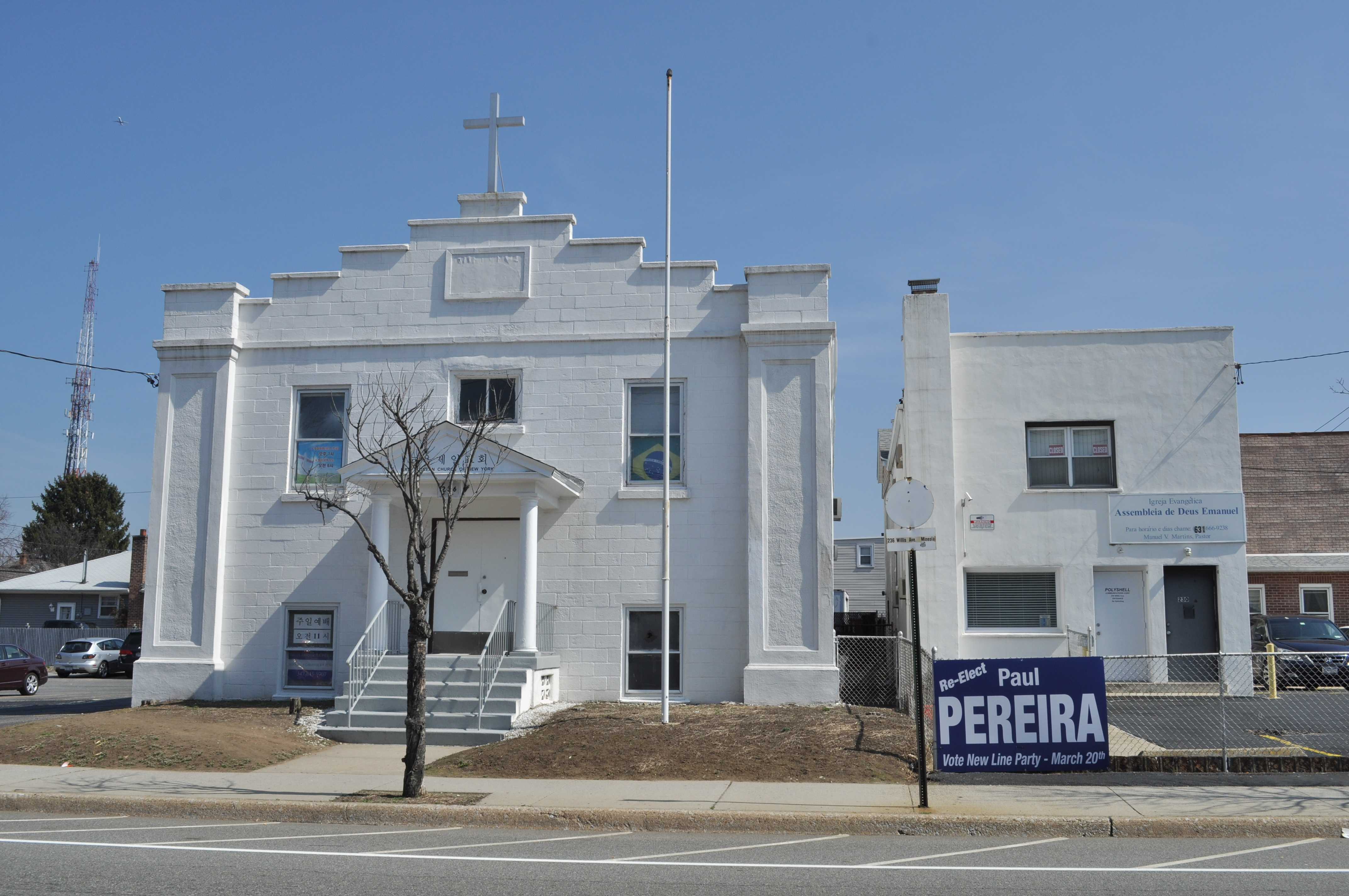 First Korean Church of New York and Assembleia de Deus Emanuel on Willis Avenue, Mineola, Long Island, New York.